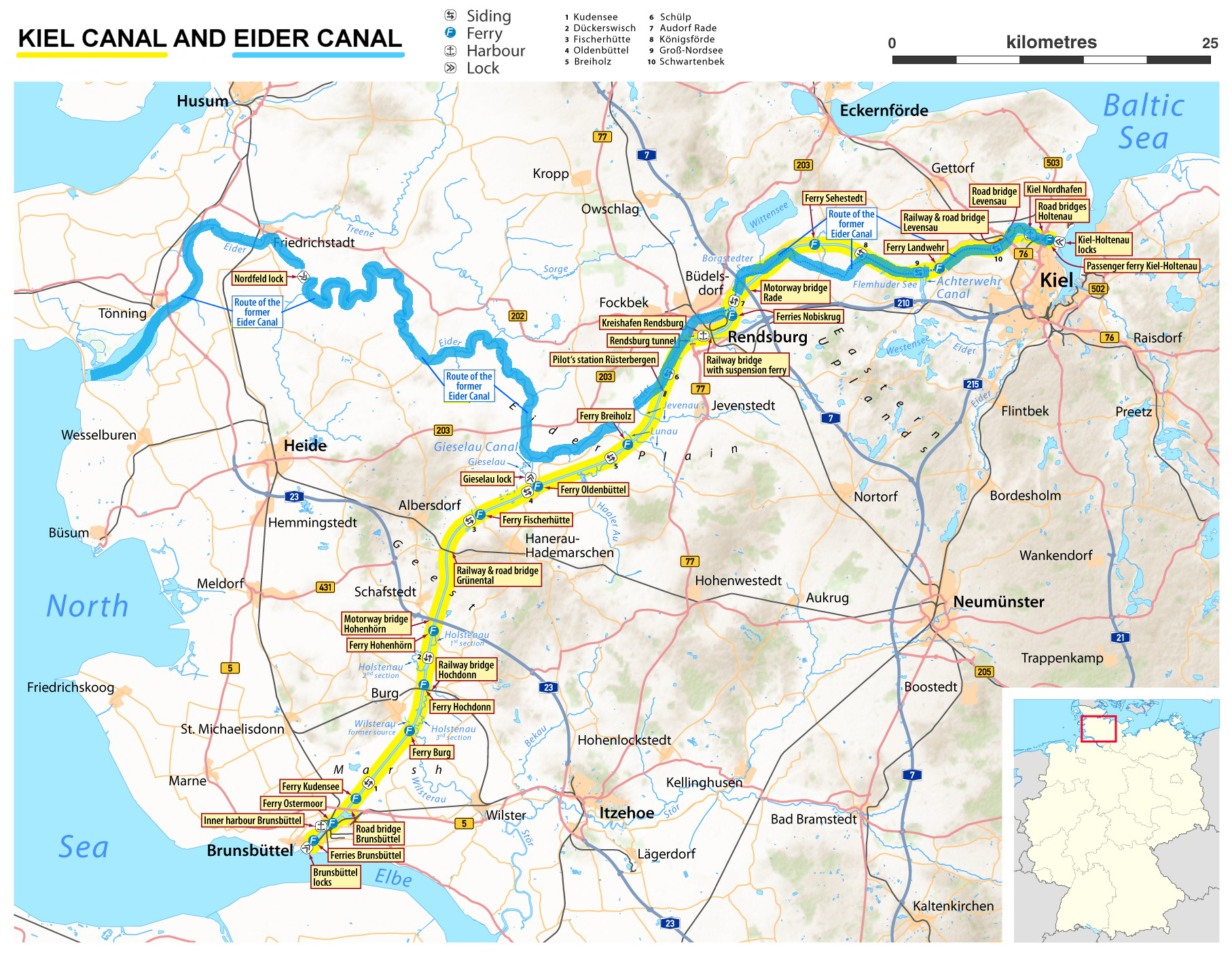 Map of the Kiel Canal (yellow) and the Eider Canal (blue)